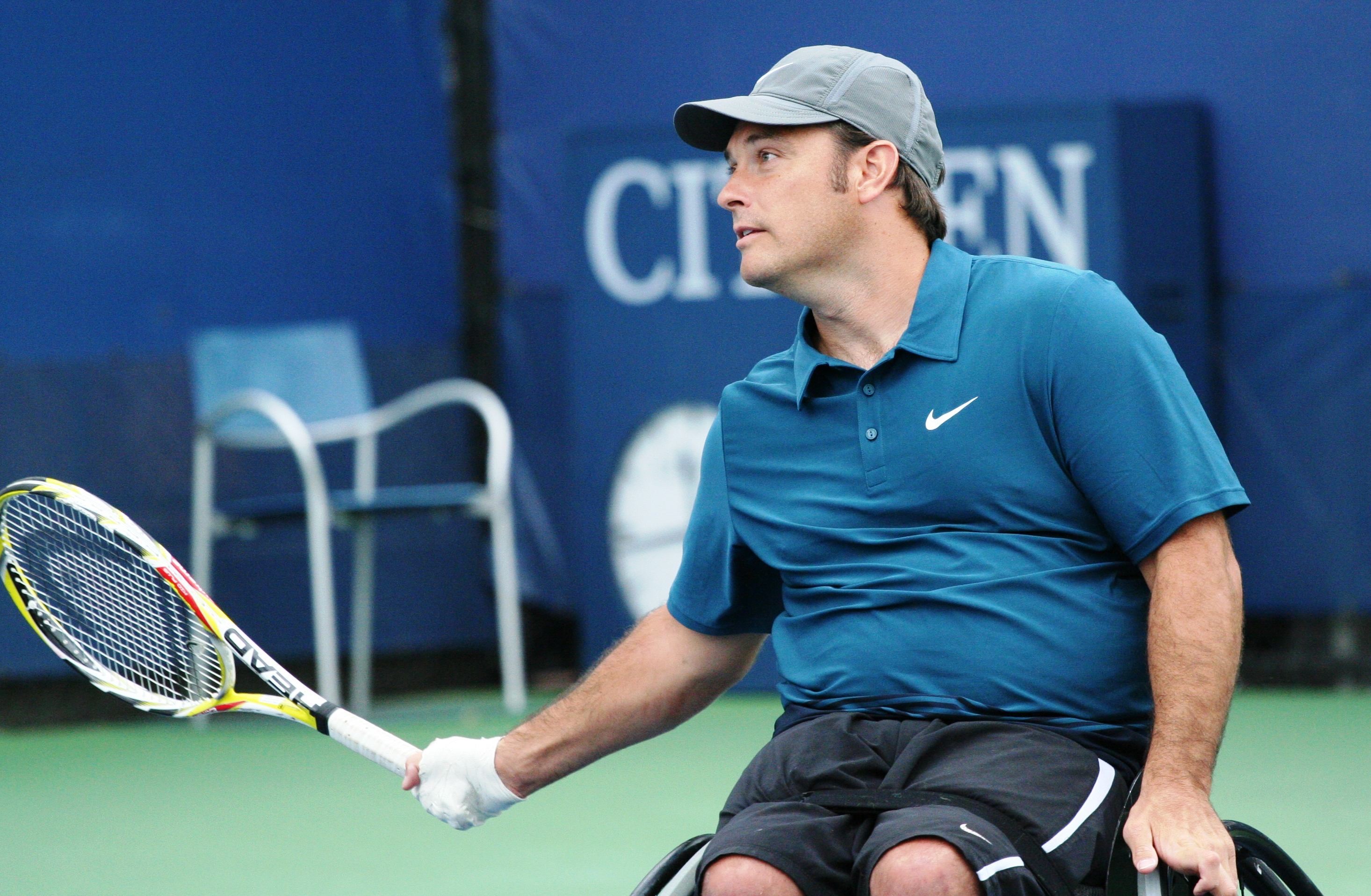 U.S. Open Wheelchair Thursday, Sept. 9, 2010